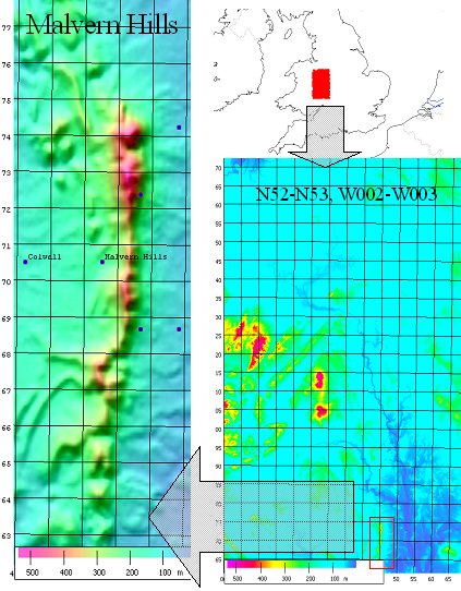 Location map of Malvern Hills within England and within N52-N53 W002-W003 SRTM tile